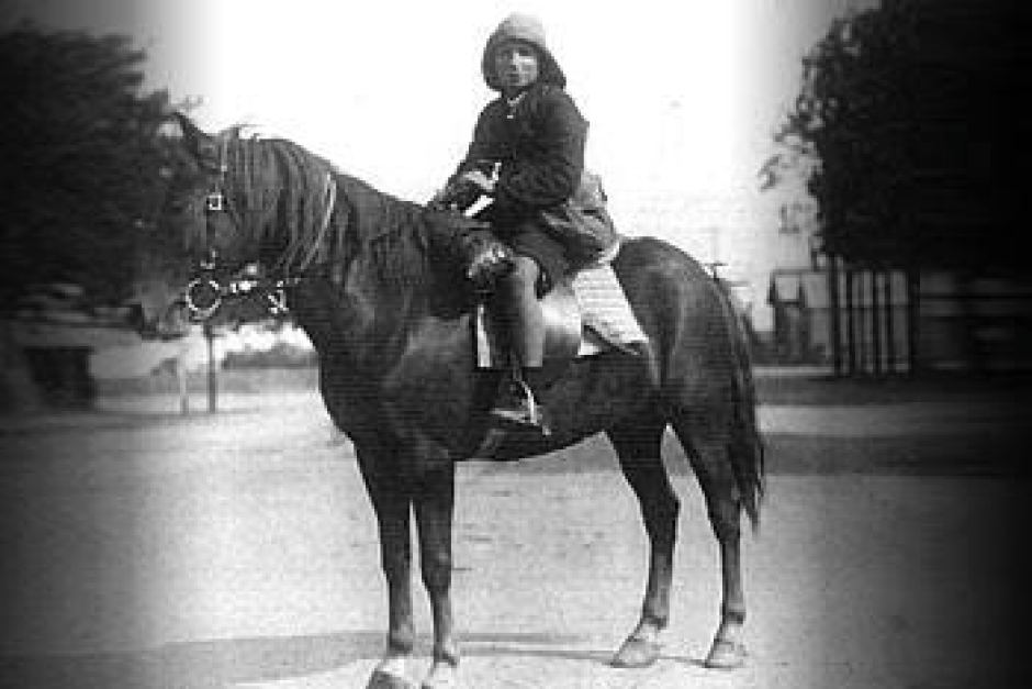 Updates throughout his journey.